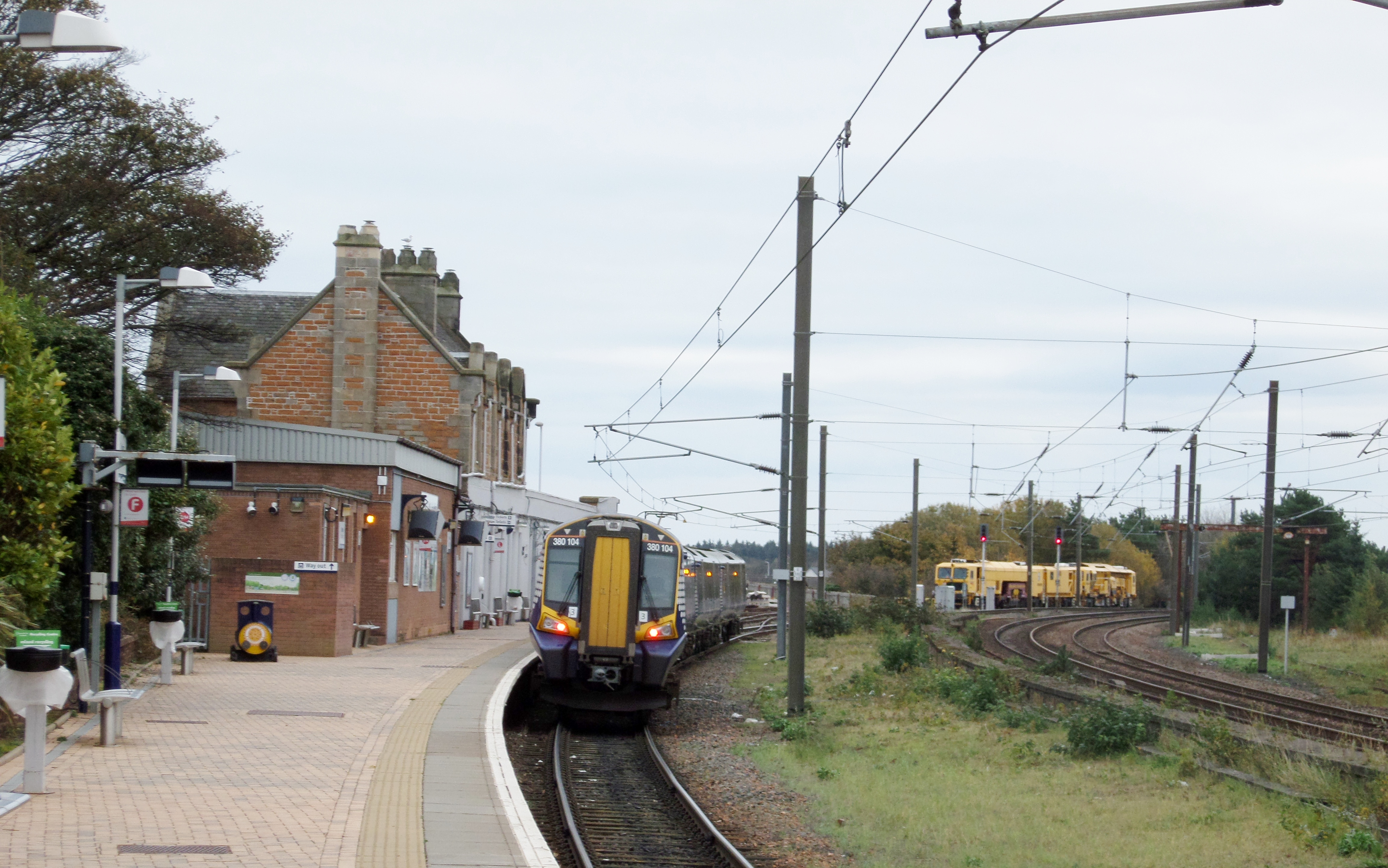 Dunbar railway station, East Lothian - view south.